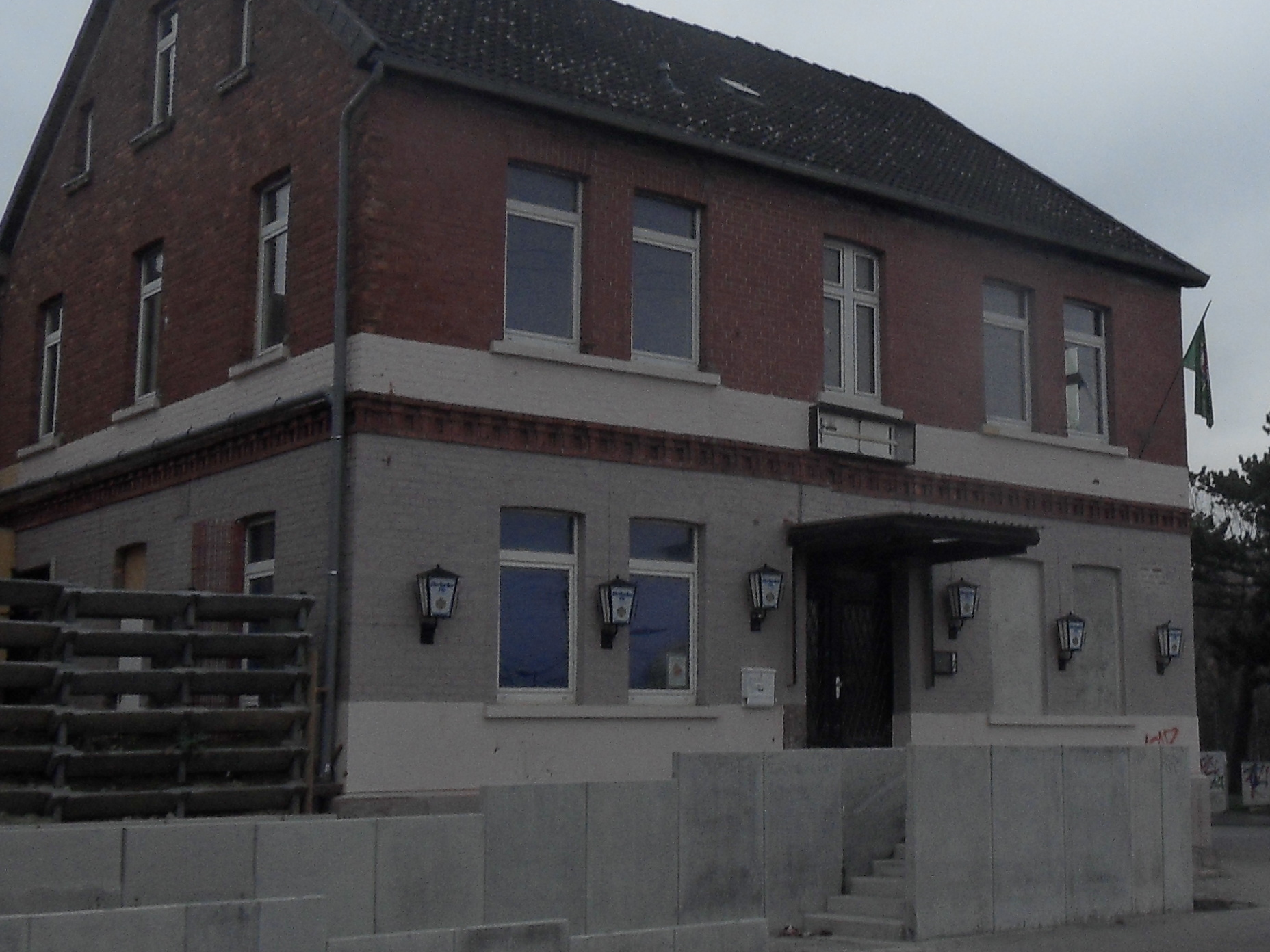 Ajz FlaFla Herford